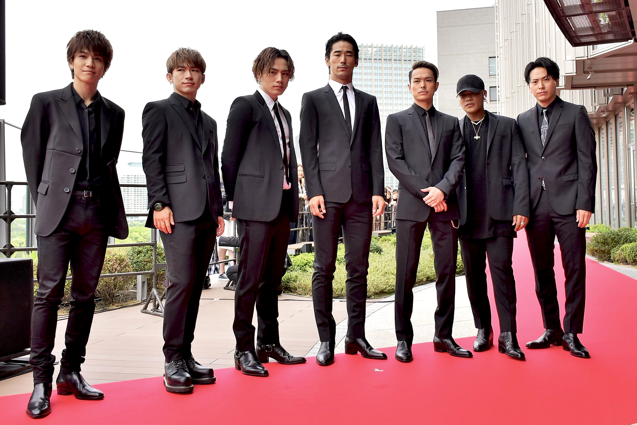 三代目 J Soul Brothers @ SSFF Asia 2018